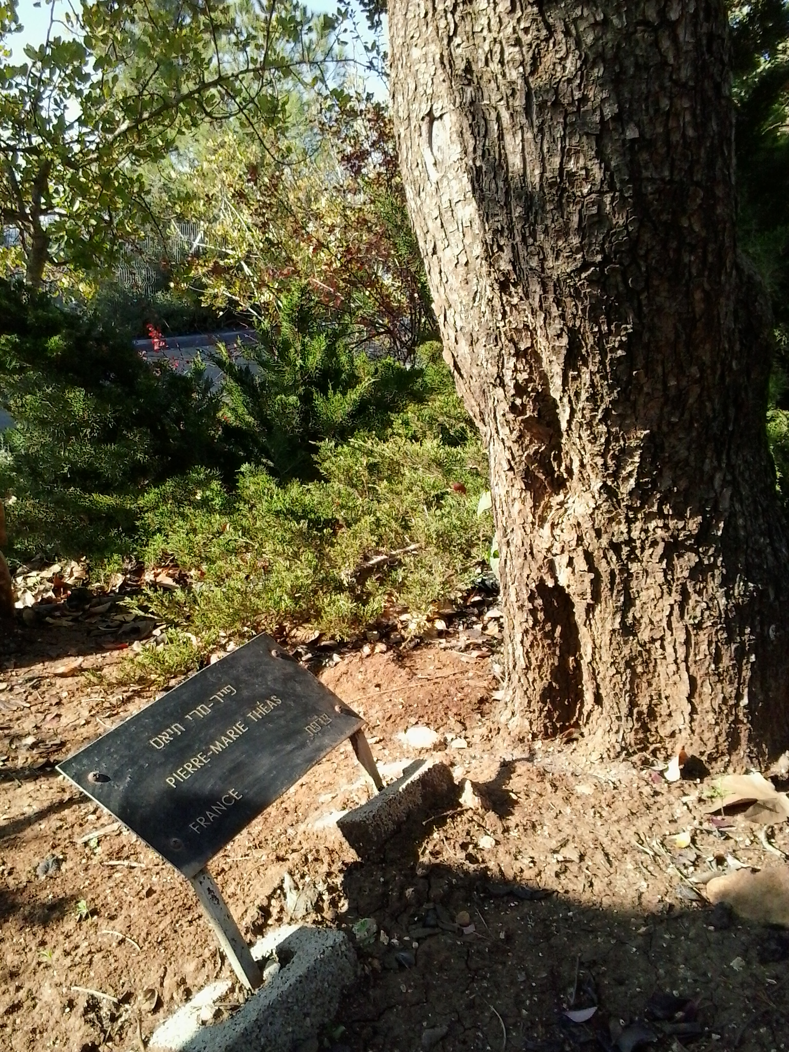 The tree planted at Yad Vashem honoring Righteous Among the Nations Pierre-Marie Théas